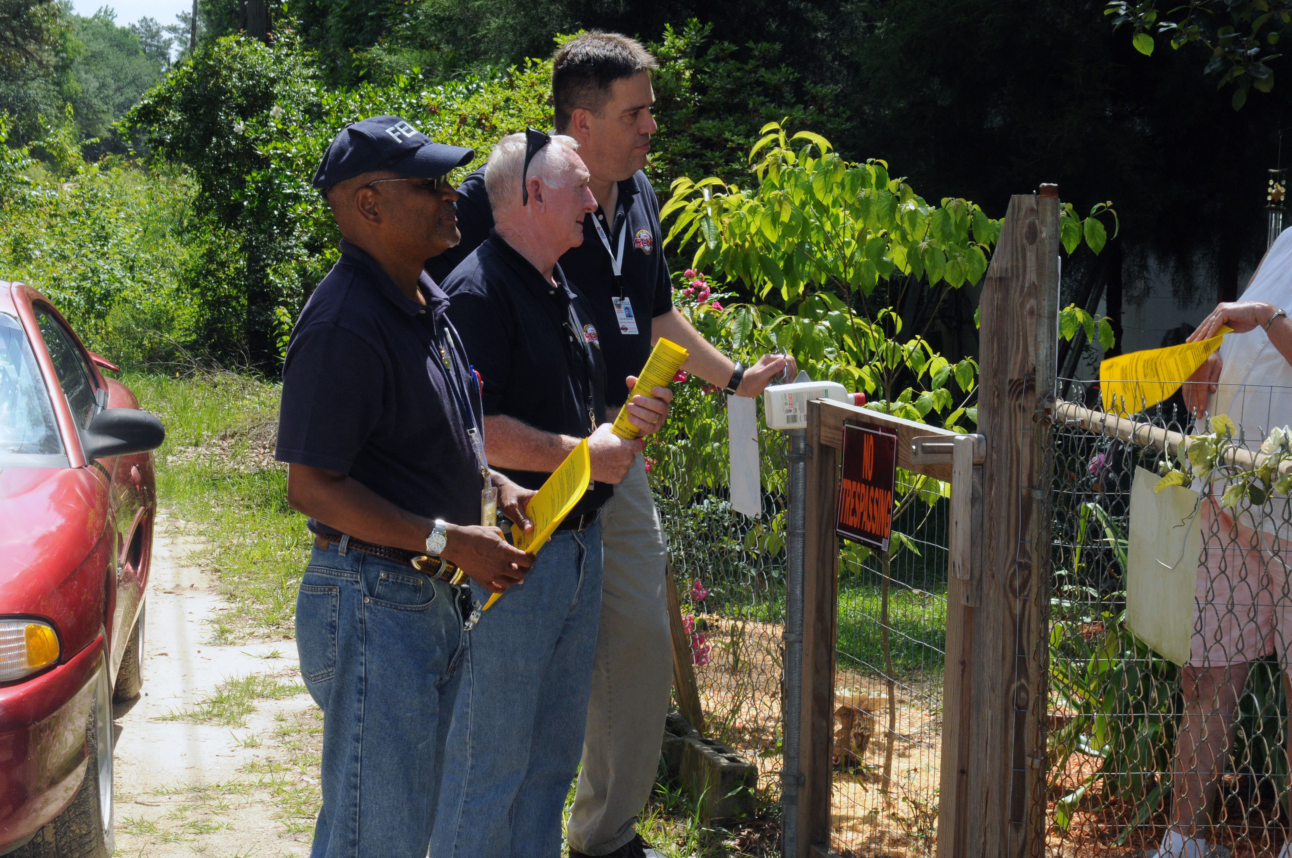 Caryville, FL, May 15, 2009 -- In Holmes County, FEMA Community Relations(CR) Lead Jean Feguiere, State Emergency Response Team(SERT) leads Tom Millar and Sam Bowman during door-to-door outreach, listen to flood affected resident. FEMA and State partners are here due to recent storms/flooding. George Armstrong/FEMA